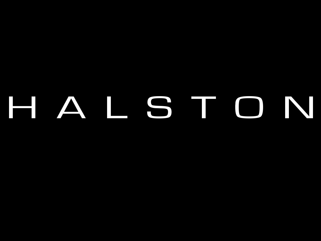 History: Not used currently by Halston brand (although slight modification is currently used) Commentary: This version was used initially by Halston brand. (Early 1970s through early 2000s)